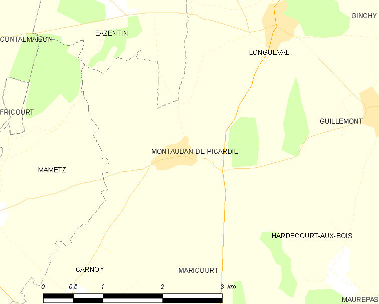 Map of French municipality Montauban-de-Picardie